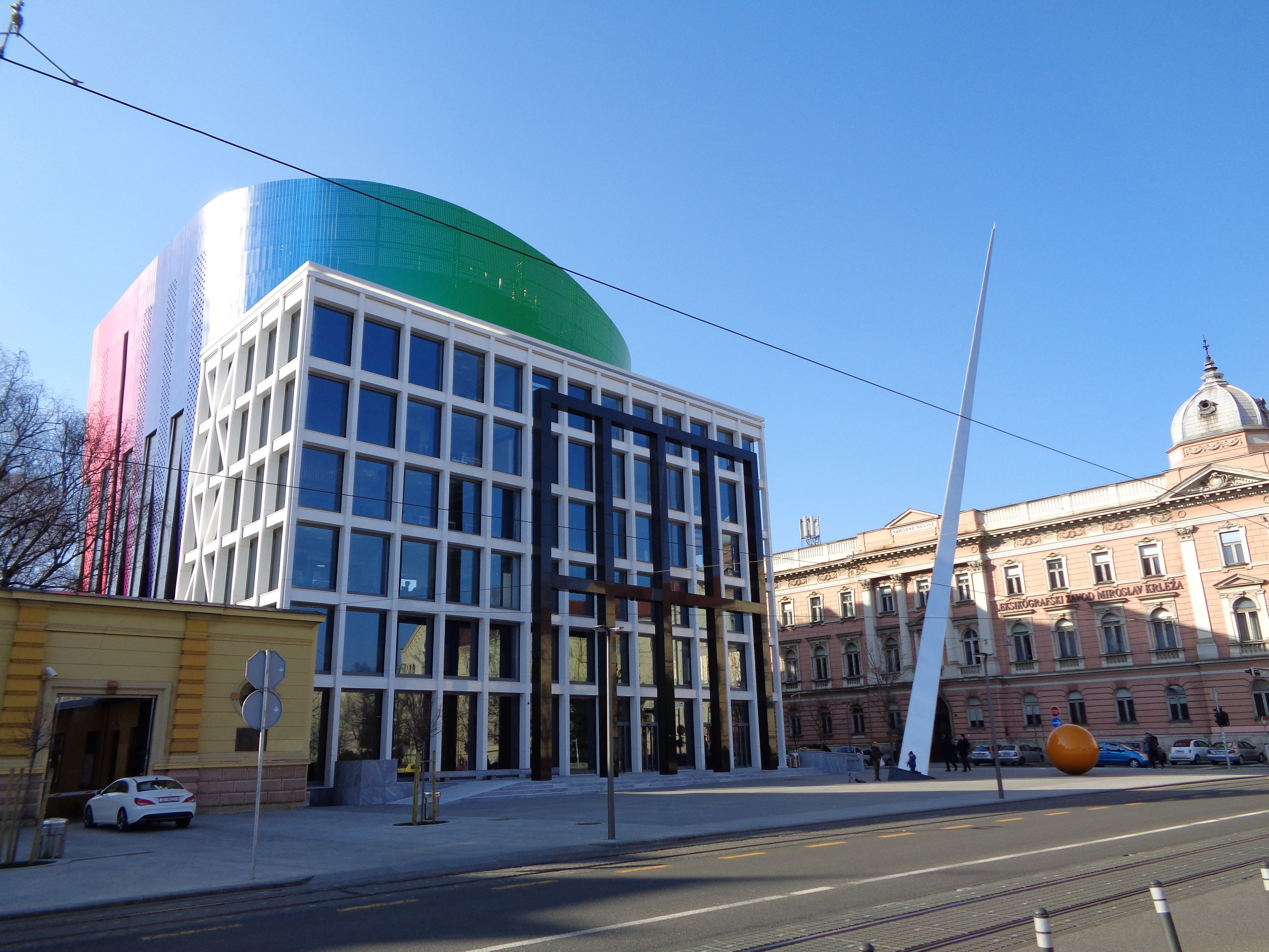 Zagreb University Music Academy - south view